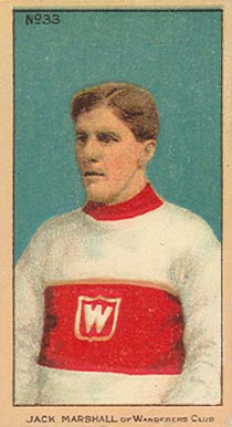 C56 Jack Marshall hockey card